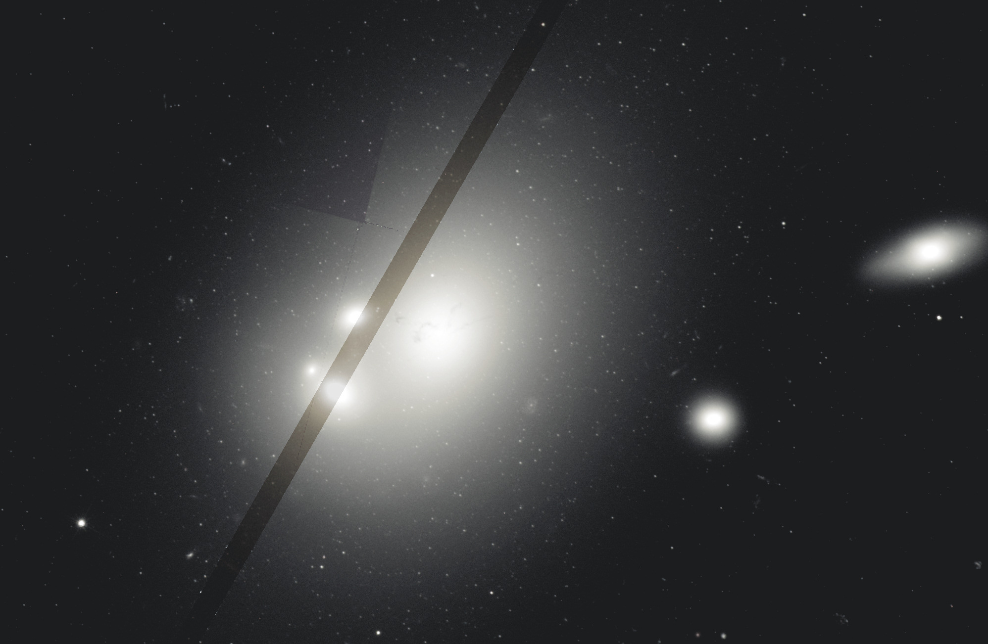 Close-up of galaxy NGC 6166, by HST (ACS: 475 and 2x814 nm; WFPC2: 555 nm).